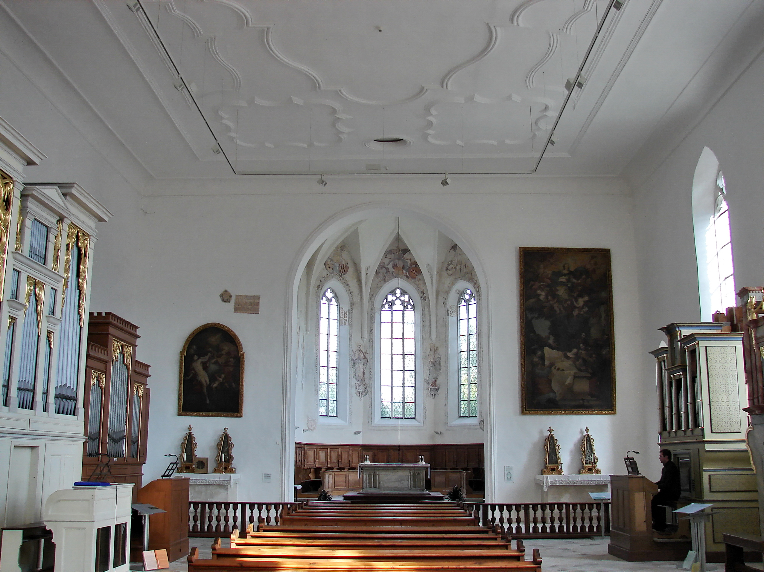 Ehemalige Franziskanerkirche in KelheimThis is a photograph of an architectural monument.